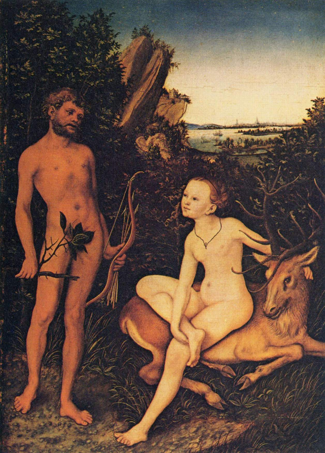 Apollo and Diana in forest landscape